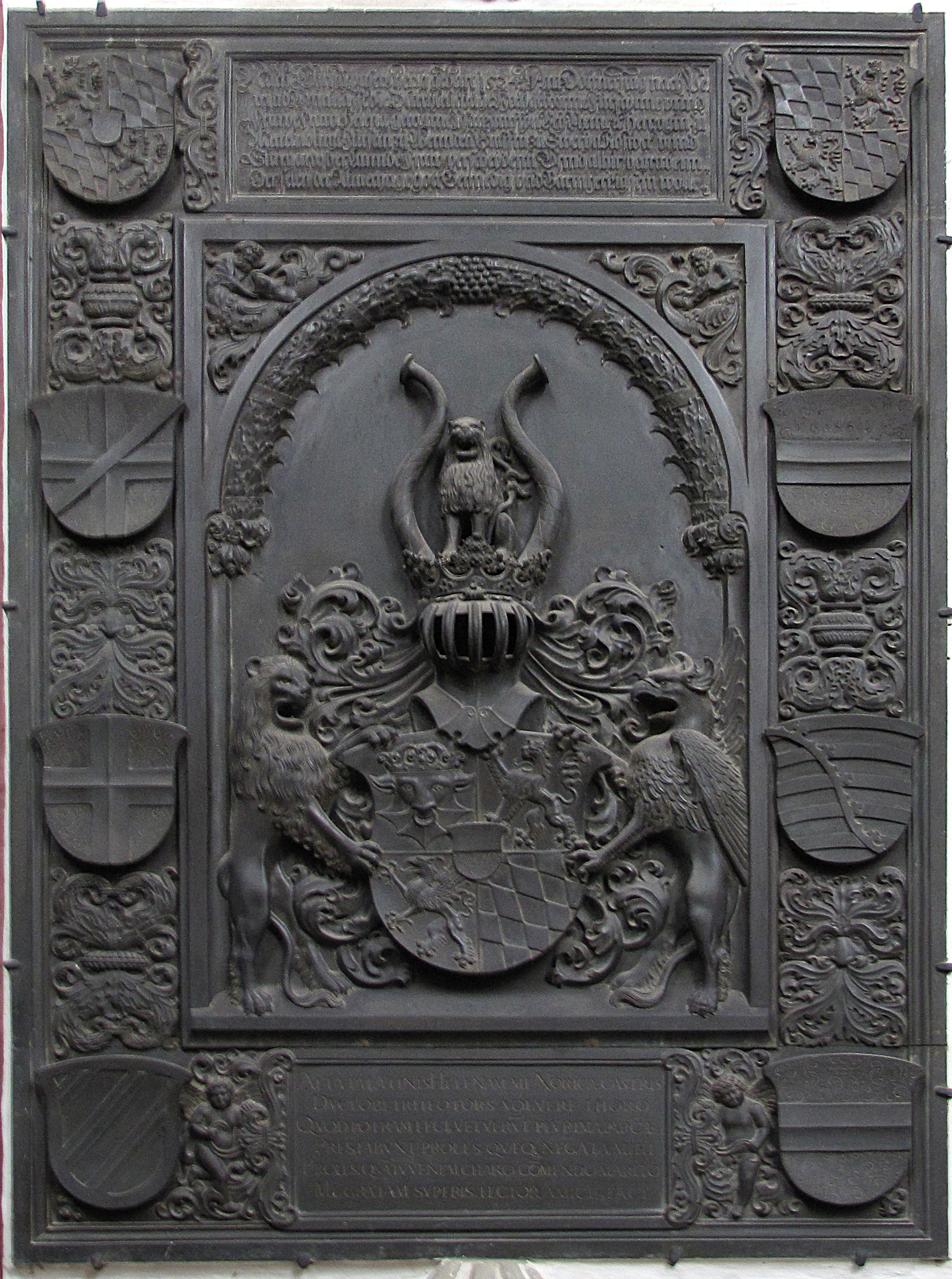 Epitaph for duchess Helena of Mecklenburg (+ 1524), second wife of Heinrich V. (Mecklenburg), work of Peter Vischer, 218 x 153 cm